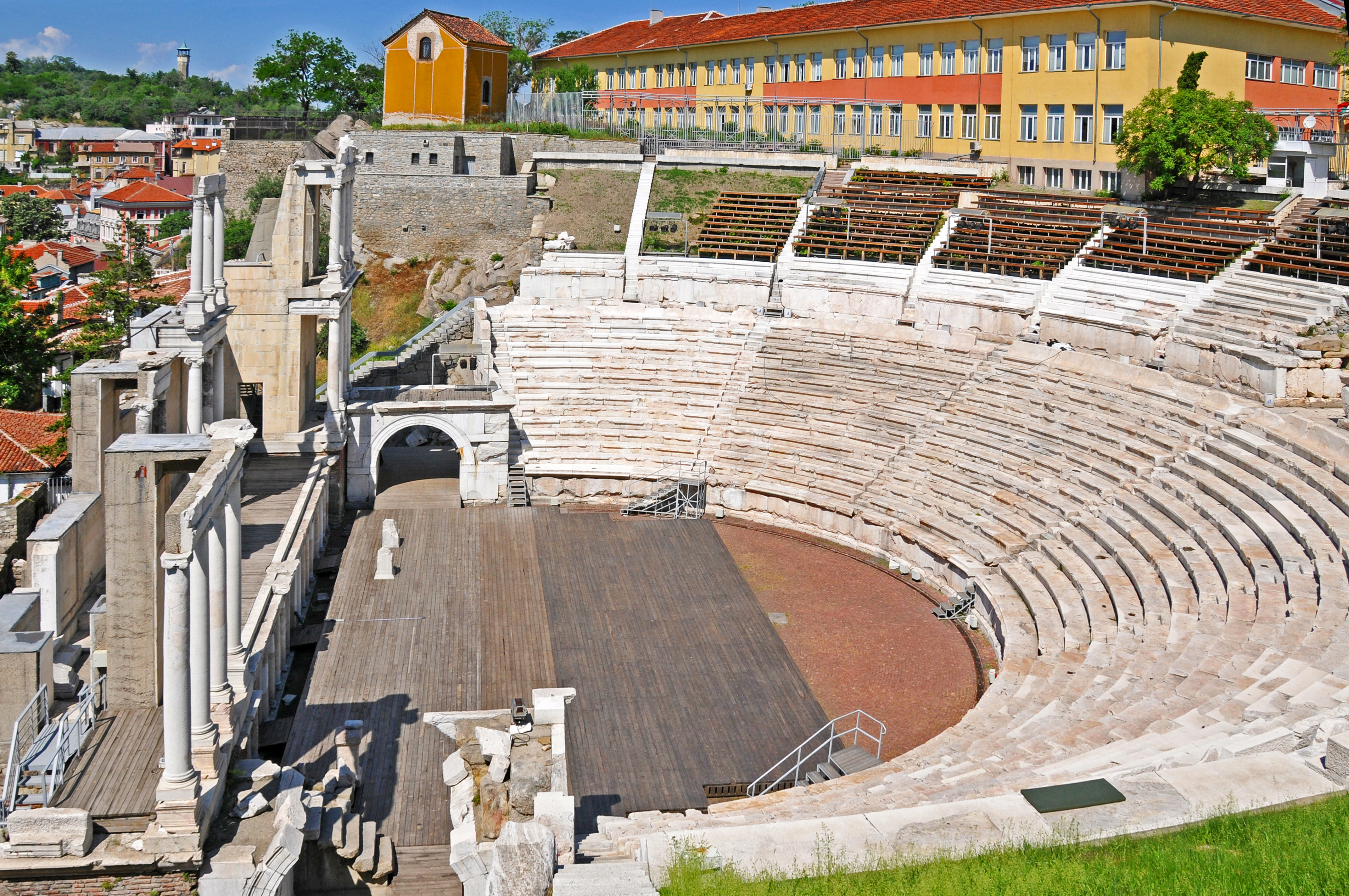 PLEASE, NO invitations or self promotions, THEY WILL BE DELETED. My photos are FREE to use, just give me credit and it would be nice if you let me know, thanks. The Roman theatre of Philippopolis is a semi-circle with an outer diameter of 82m (269ft). The stage building (the skene), is situated south of the orchestra and has 3 floors. The stage area (proskenion) is 3.16m (10.4ft) high and its facade, which is facing the orchestra, is decorated with an Ionic marble colonnade with triangular pediments. According to a builders’ inscription, discovered on the frieze-architrave of the eastern proskenion, the construction of the theatre dates back to the time of Emperor Trajan. Built with 7,000 seats, each section had the names of the city quarters engraved on the benches so the citizens at the time knew where they were to sit. The theatre was damaged in the 5th century AD by Attila the Hun. The theatre was found again in the 1970s due to a landslide, this started a major archeological excavation.